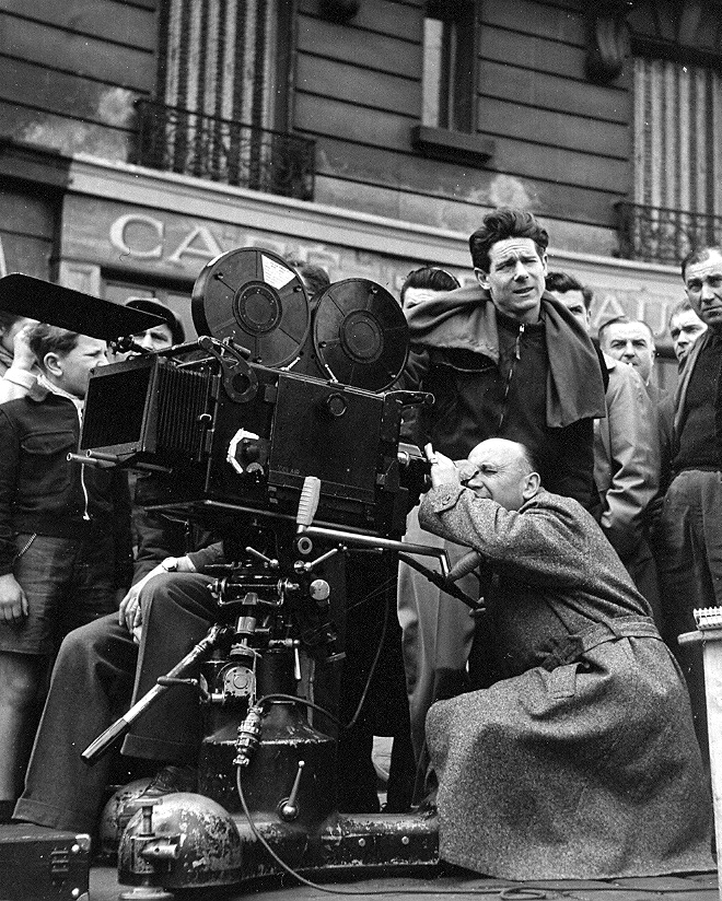 In wintertime 1949 in Paris, during shootings of "Danger is a woman"